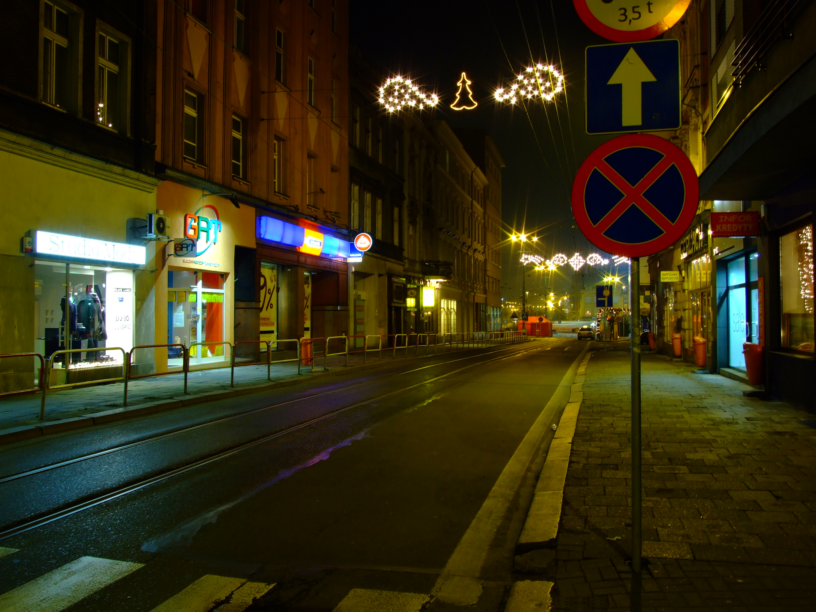 Świetego Jana street in Katowice, Silesian Voivodship, PLhelp